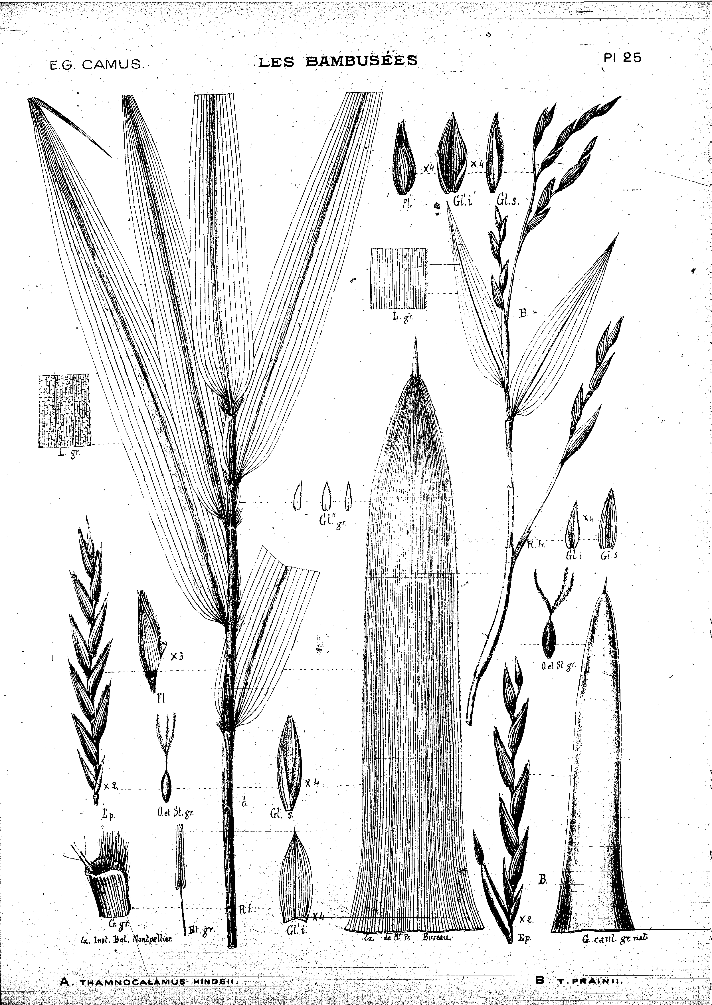 Thamnocalamus Hindsii et T. Prainii